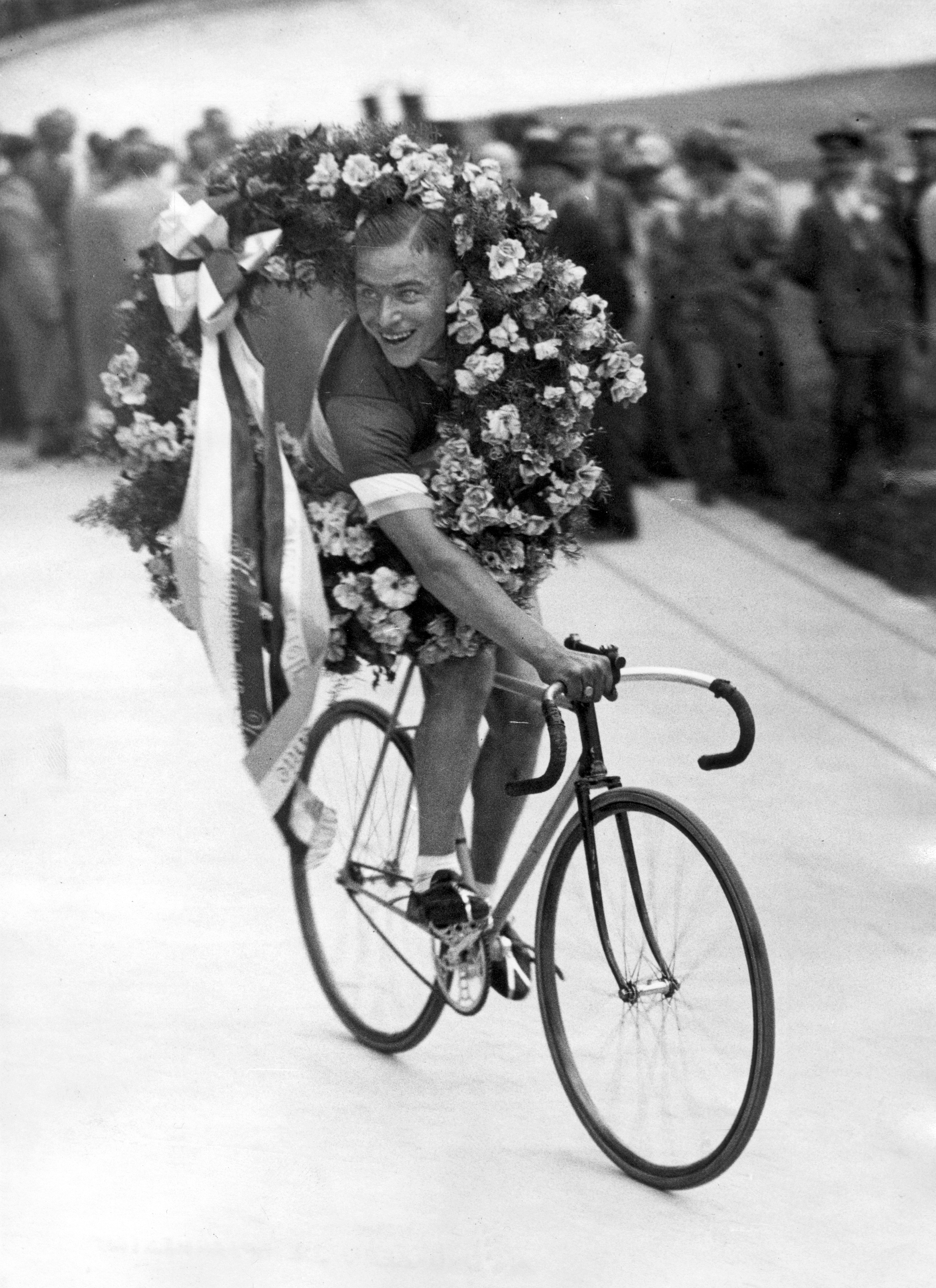 Jan "cannonball" Pijnenburg has become Dutch bicycle champion pursuit, riding his hononary lap. Amsterdam, July 1935.